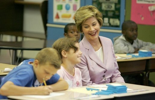 First Lady Laura Bush observes a fifth grade math class at Lovejoy Elementary School in Des Moines, Iowa.